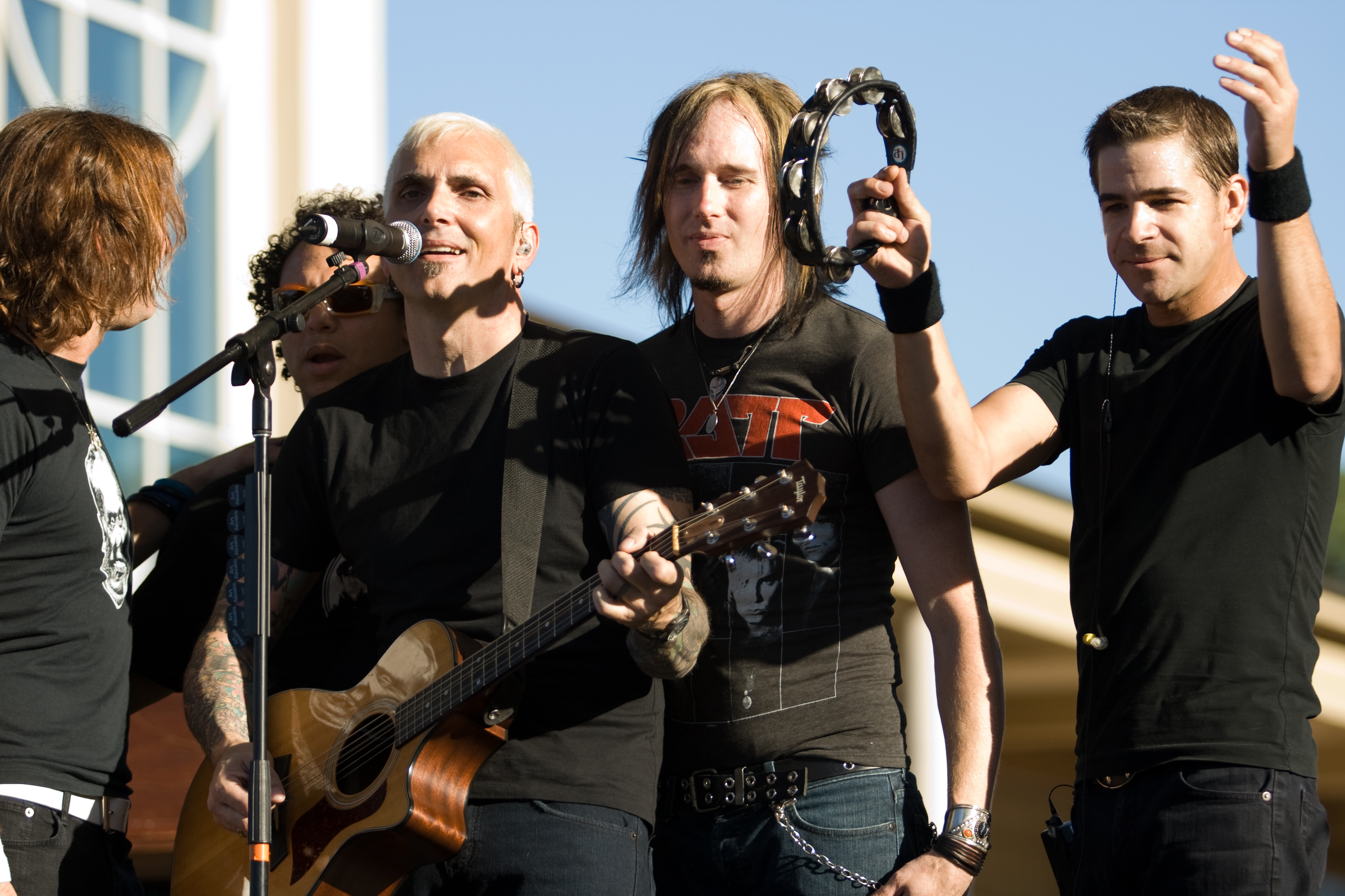 Everclear performing live at Emory University on September 29th, 2007